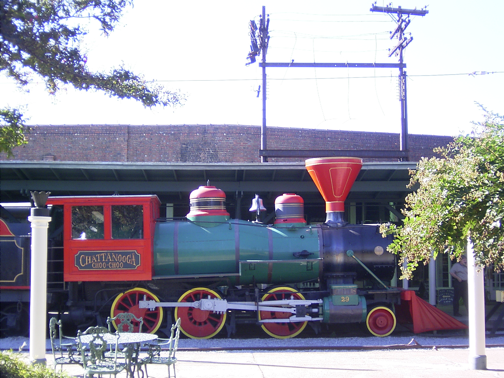 Chattanooga Choo Choo in Terminal Station (Chattanooga)